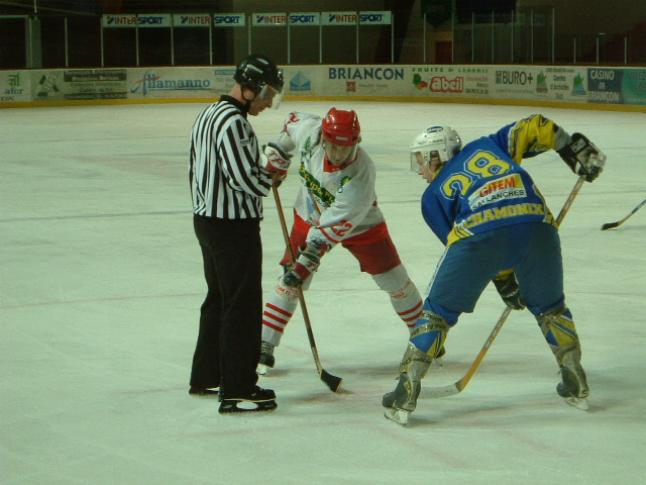 Martin Filip, czech ice hockey player